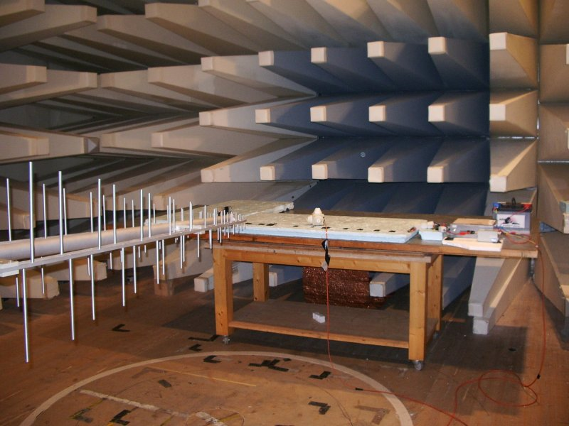 EMC Lab with RF antenna